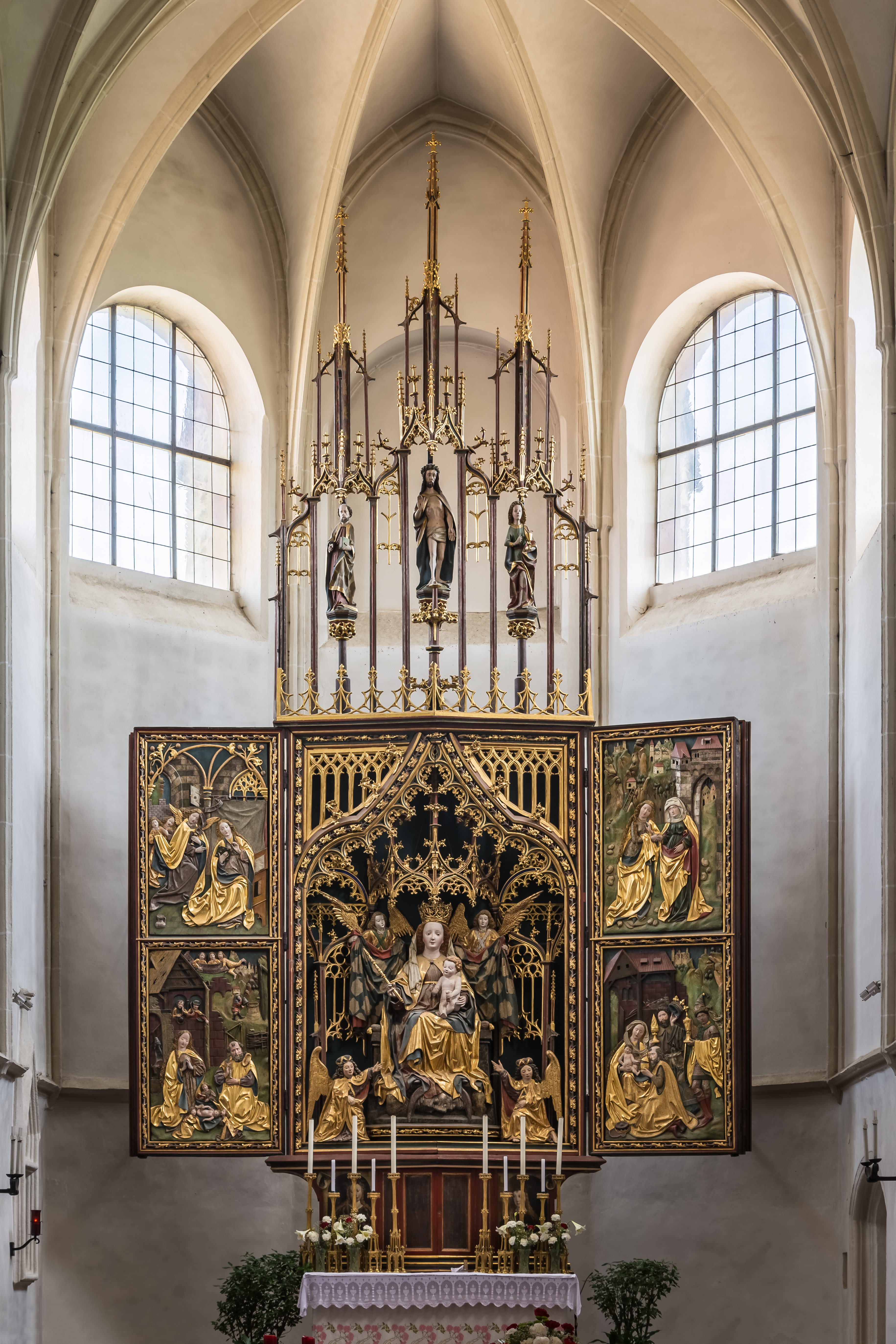 Winged altar at the parish- and pilgrimage church Maria Laach am Jauerling, Lower Austria. Anonymous master, 1480.